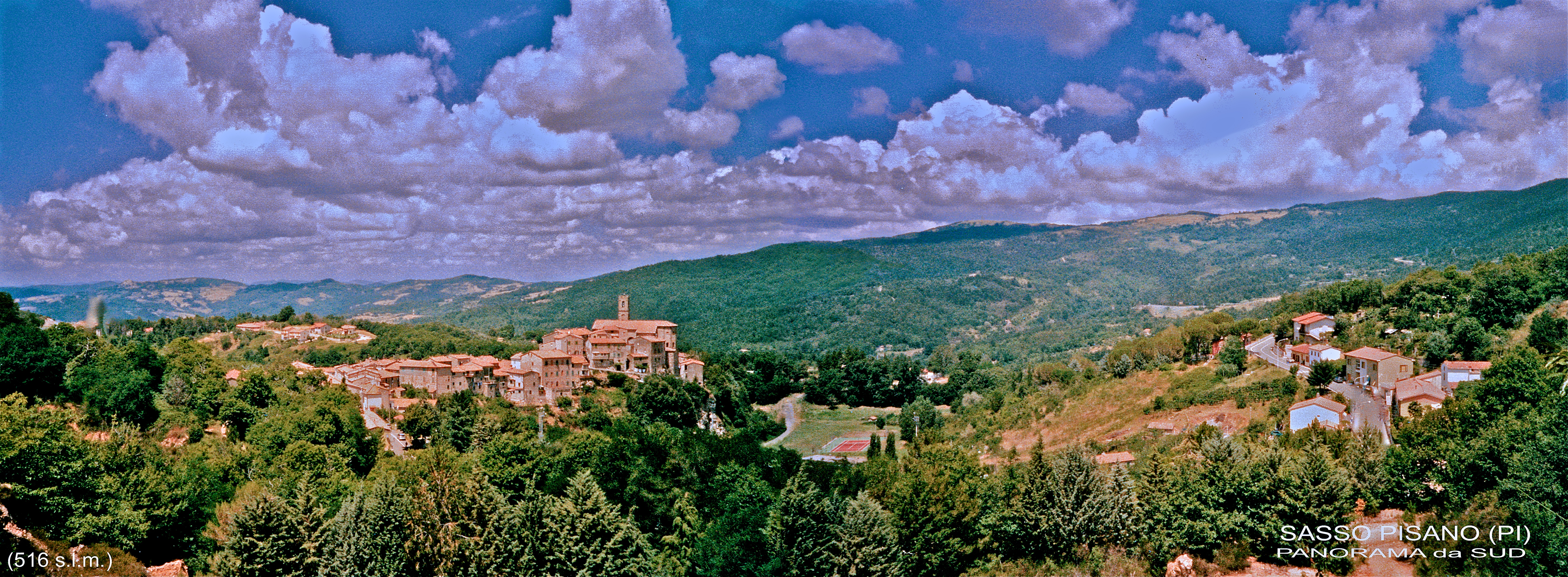 Sasso Pisano